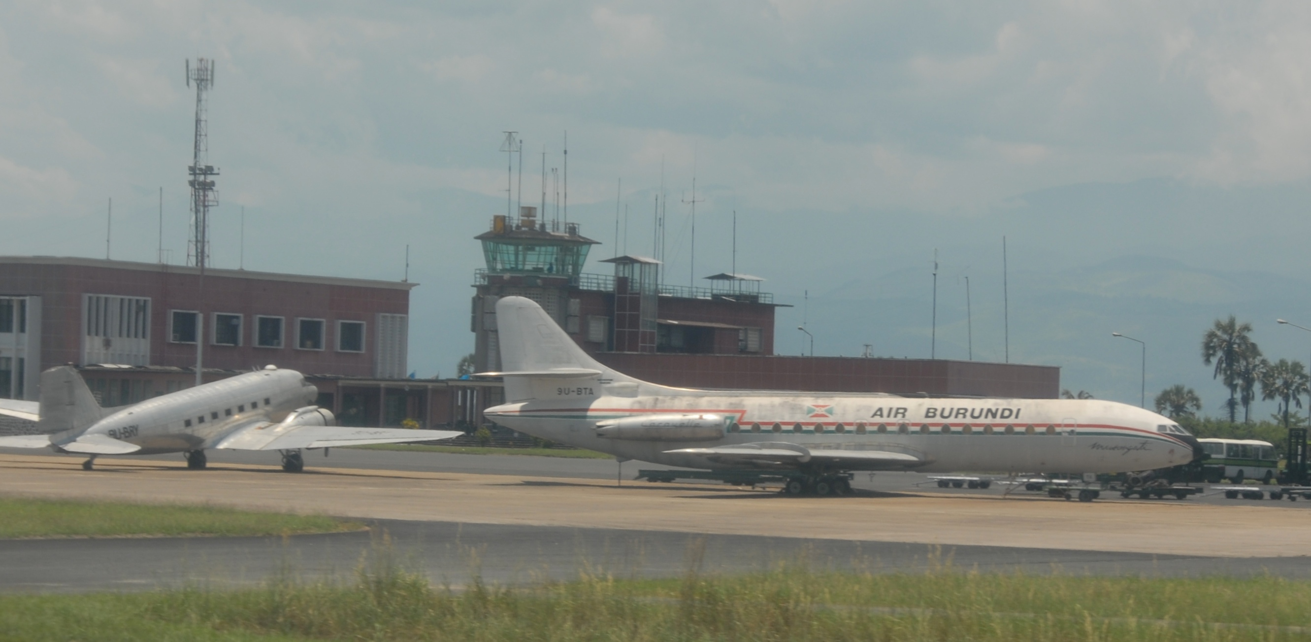 A Douglas DC-3 aircraft (9U-BRY) and Sud SE-210 Caravelle III aircraft (9U-BTA) at Bujumbura Airport